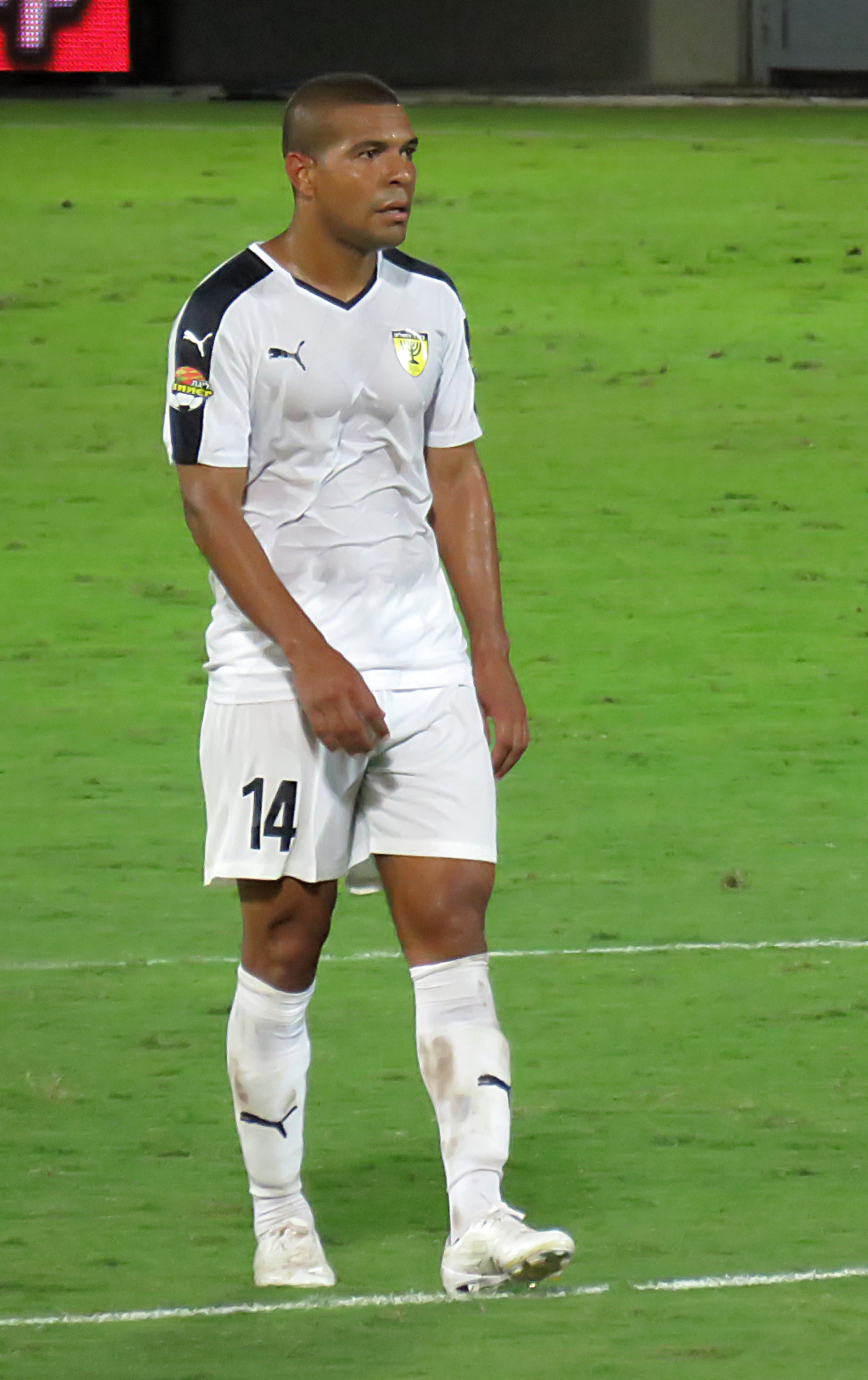 Bnei Yehuda Tel Aviv vs. Beitar Jerusalem - 19 September, 2015